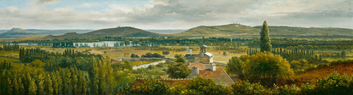 Panoramic view of-the Ile-de-France painted by Théodore Rousseau in 1830. Conserved in National Gallery of Art, Washington (Courtesy National Gallery of Art, Washington)